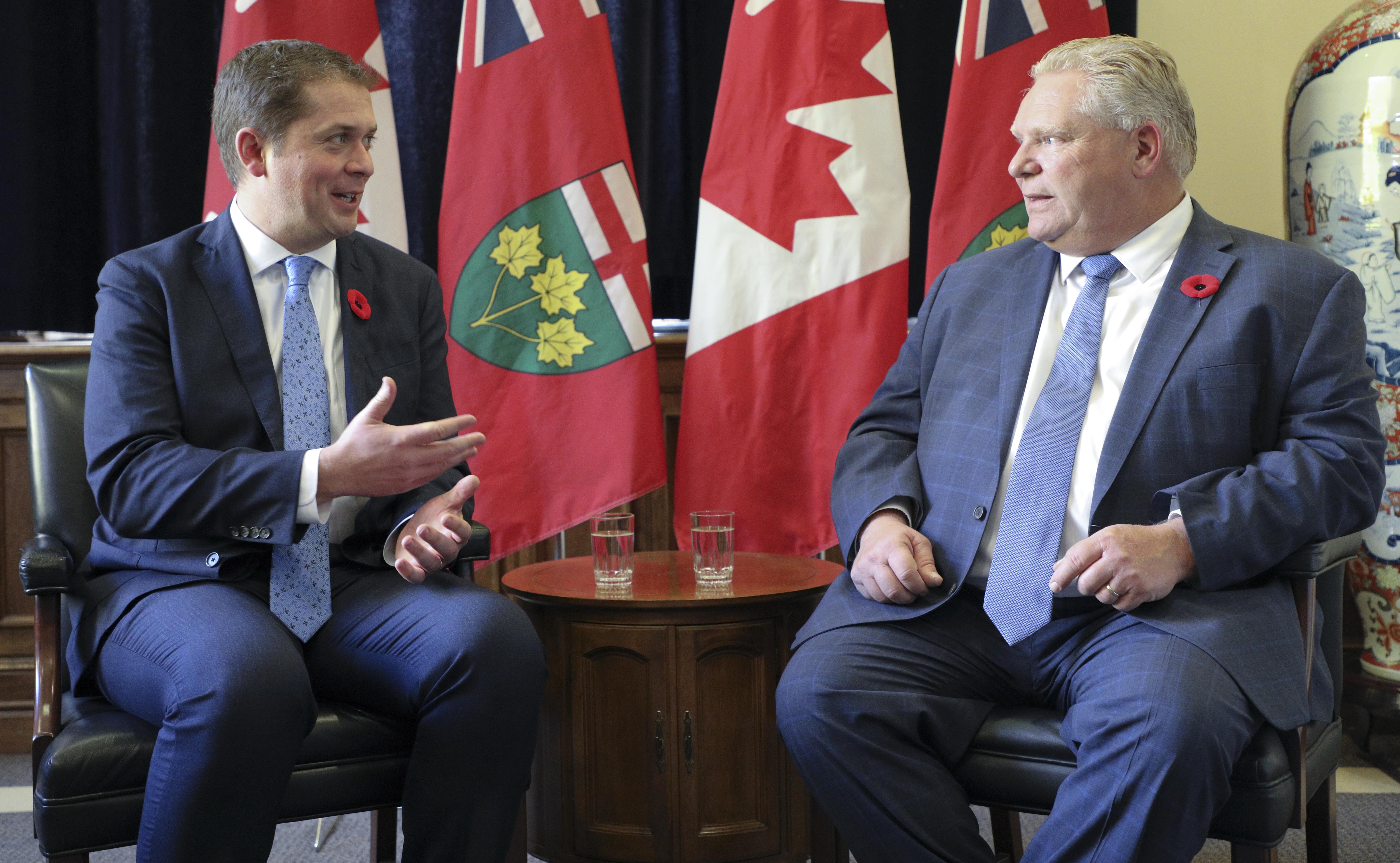 Big day in Ontario today! Doug Ford and I are fighting to defeat the carbon tax, lowering the cost of living, and working to keep you safe.